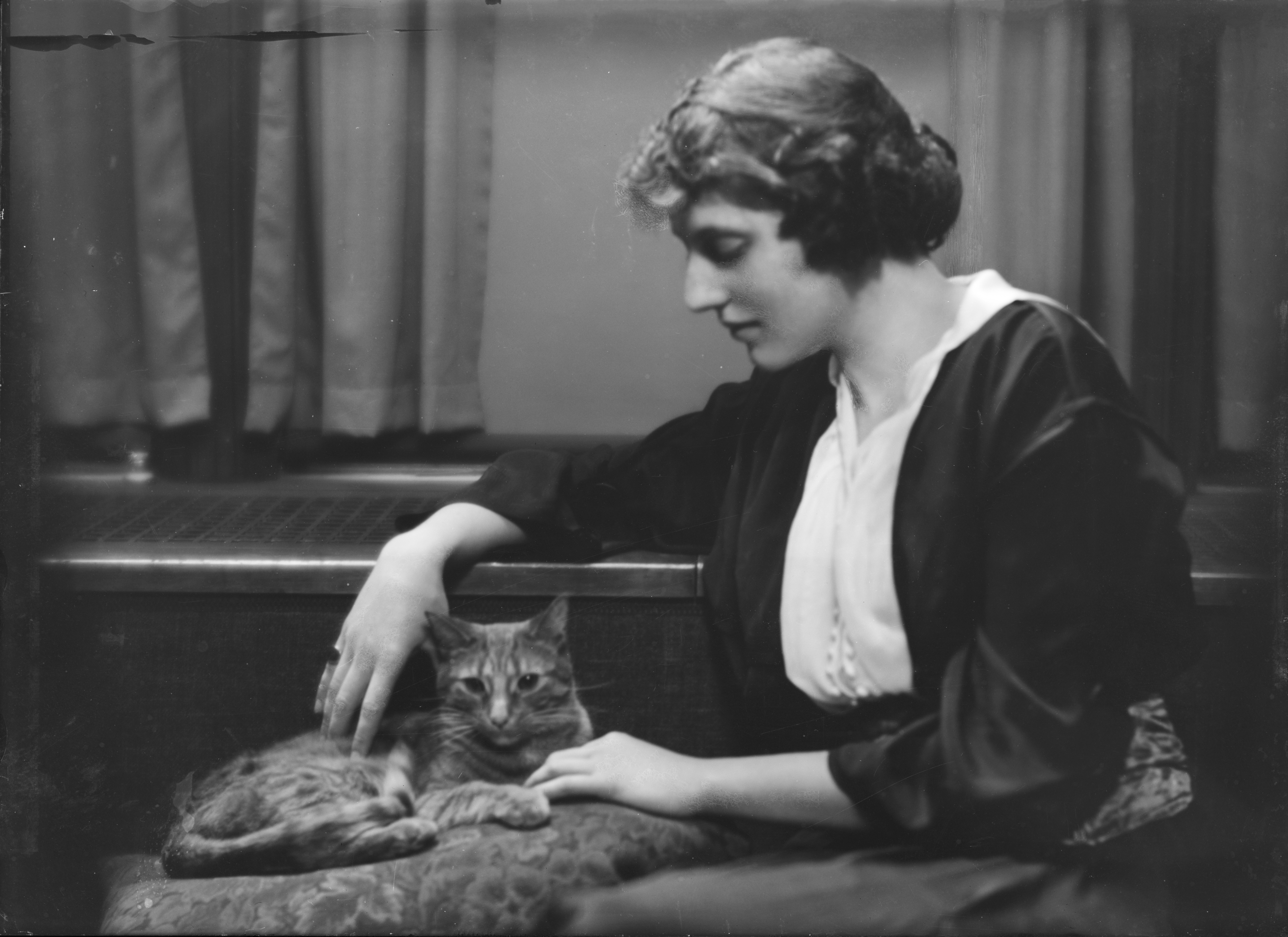 itle Bartlett, Eleanor, Miss, with Buzzer the cat, portrait photograph Contributor Names Genthe, Arnold, 1869-1942, photographer Created / Published 1914 Apr. 4. Subject Headings - Genthe, Arnold,--1869-1942--Animals & pets. Format Headings Glass negatives. Portrait photographs. Notes - Purchase; Genthe Estate; 1942 or 1943. - 1933; NY 9r; RR card; PR6 card Medium 1 negative : glass ; 5 x 7 in. Call Number/Physical Location LC-G432- 0622 [P&P]